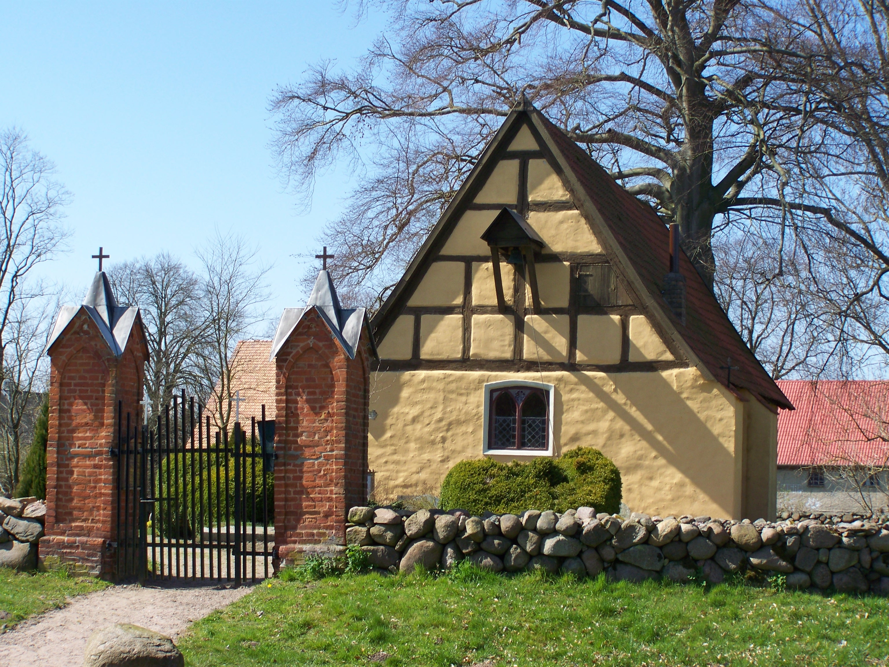 Former chapel of Quitzin Castle, Mecklenburg-Vorpommern, Germany